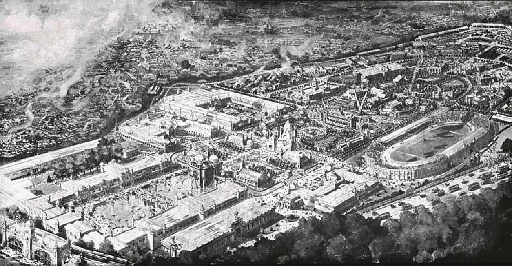 Bird's Eye View of Franco-British Exhibition, London, 1908 Dated: by 11/05/1908 Digital ID: 14086_a005_a005SZ845000001r Rights: We'd love to hear from you if you use our photos. Many other photos in our collection are available to view and browse on our website using Photo Investigator.